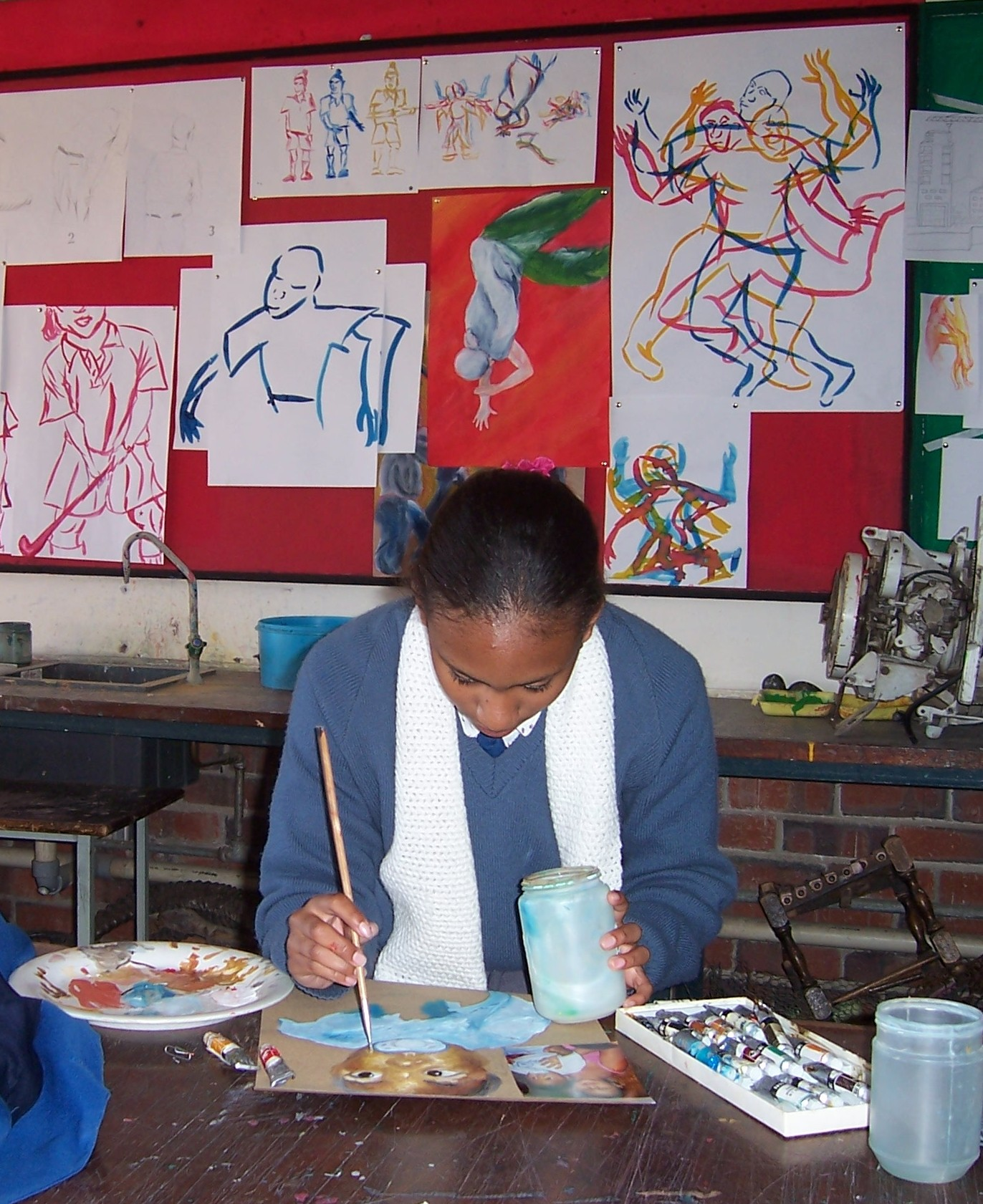 C John